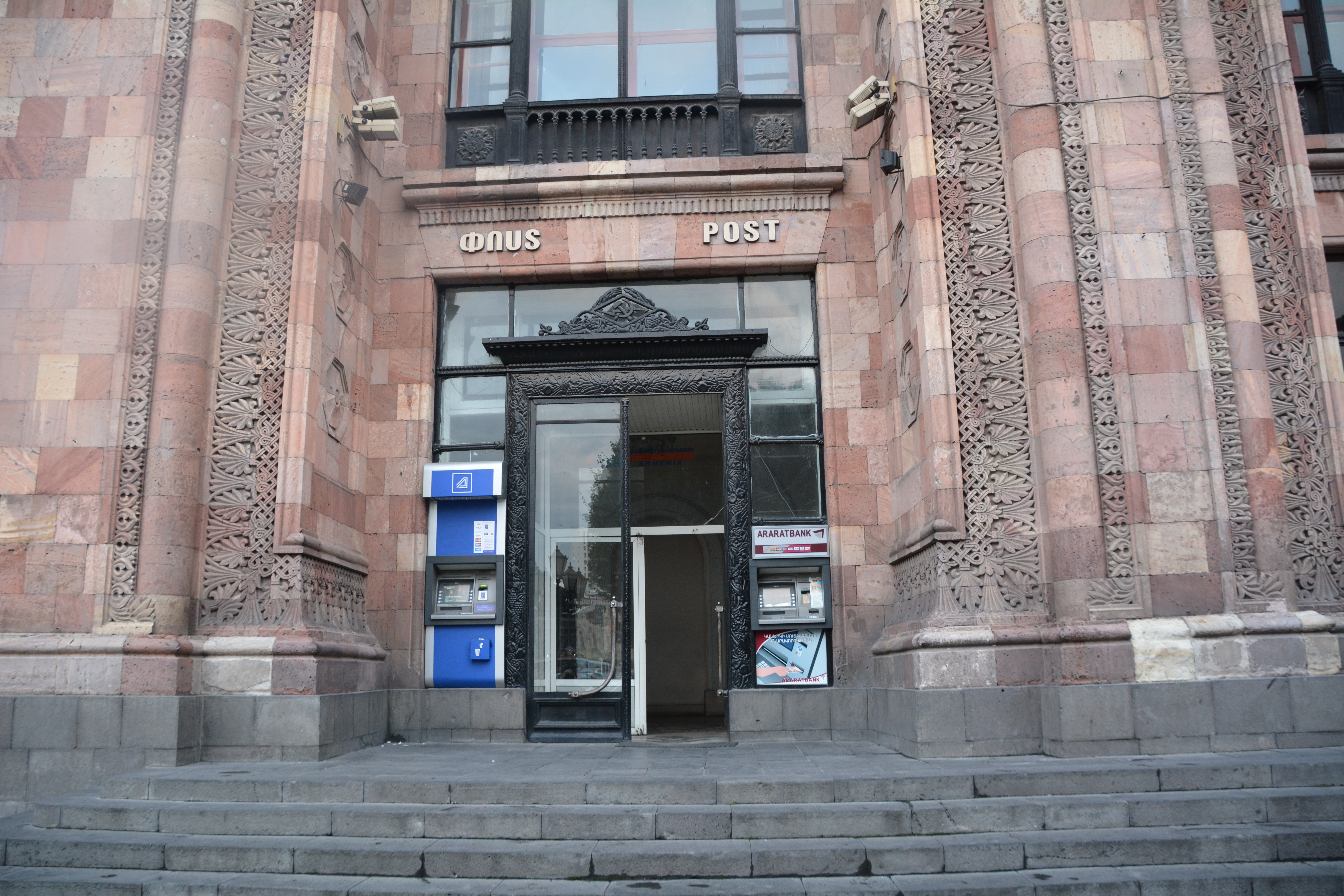 Haypost Republic Square post office, Yerevan, Armenia, in Trade Unions' and Communications Building, 1933, by architects Marc Grigorian and Eduard Sarapian